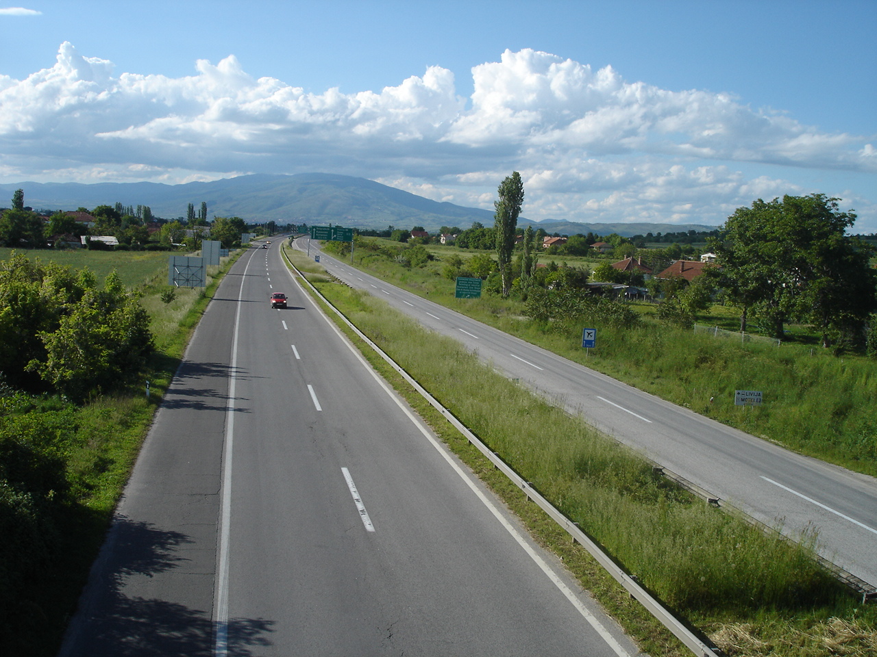 Motorway "Alexander of Macedon" , Macedonia